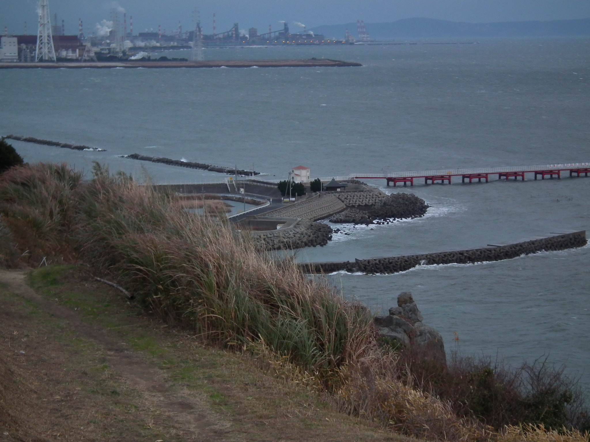 姫路市立公園遊漁センター 八家地蔵 木庭神社 木場山より